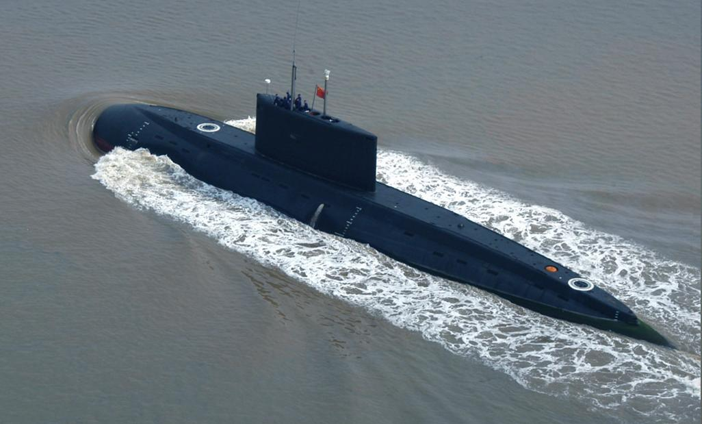 A Chinese Kilo with the red flag